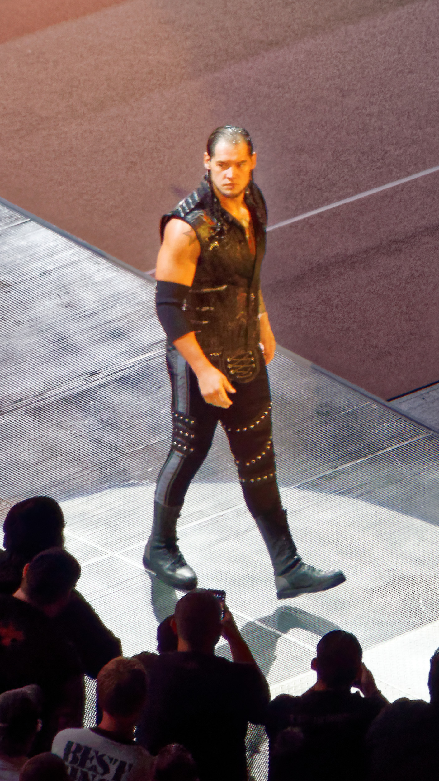 The raw after WrestleMania 32 Baron Corbin draw (DCO) Dolph Ziggler (in 08:32)